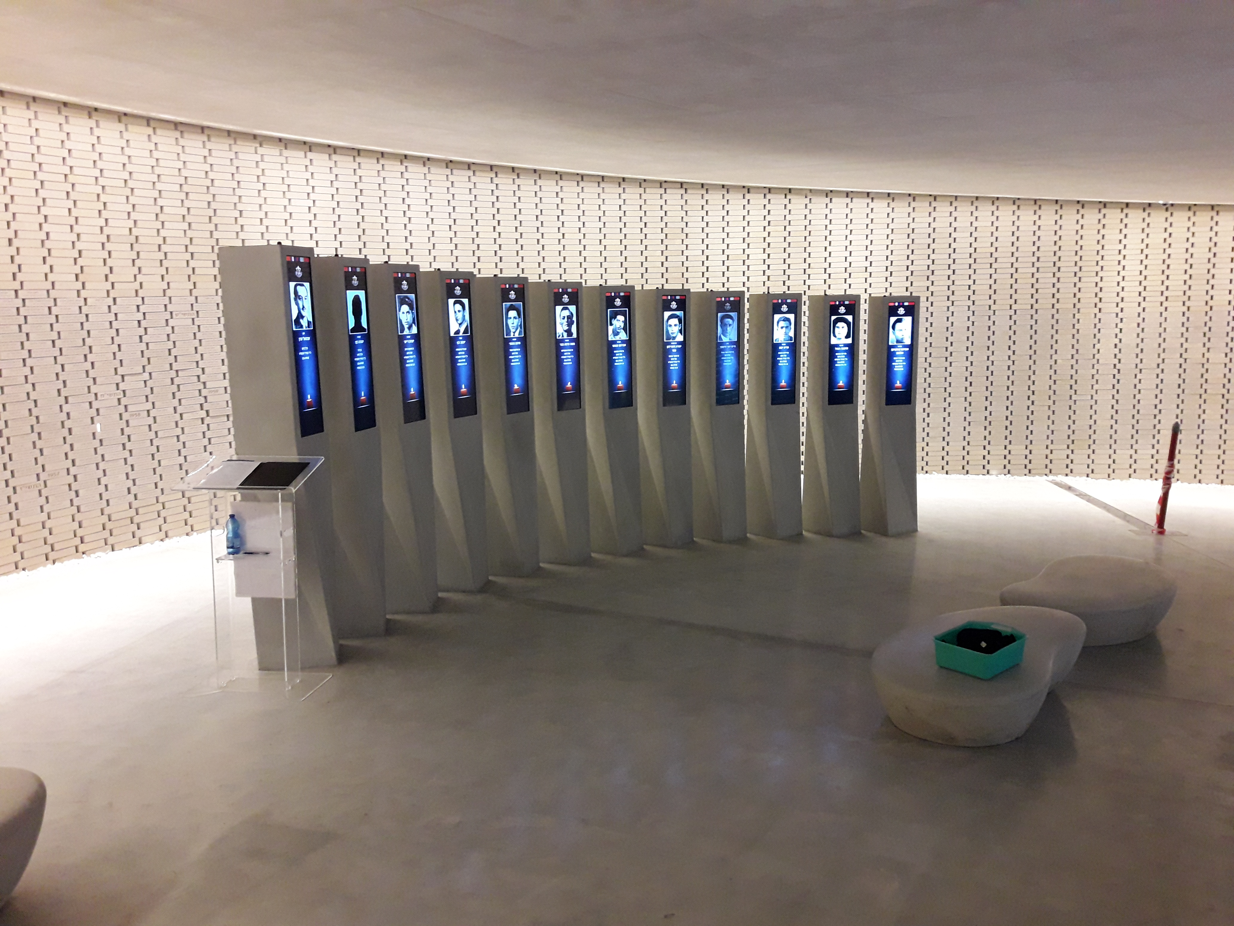 Mount Herzl Military Cemetery - National Memorial Hall